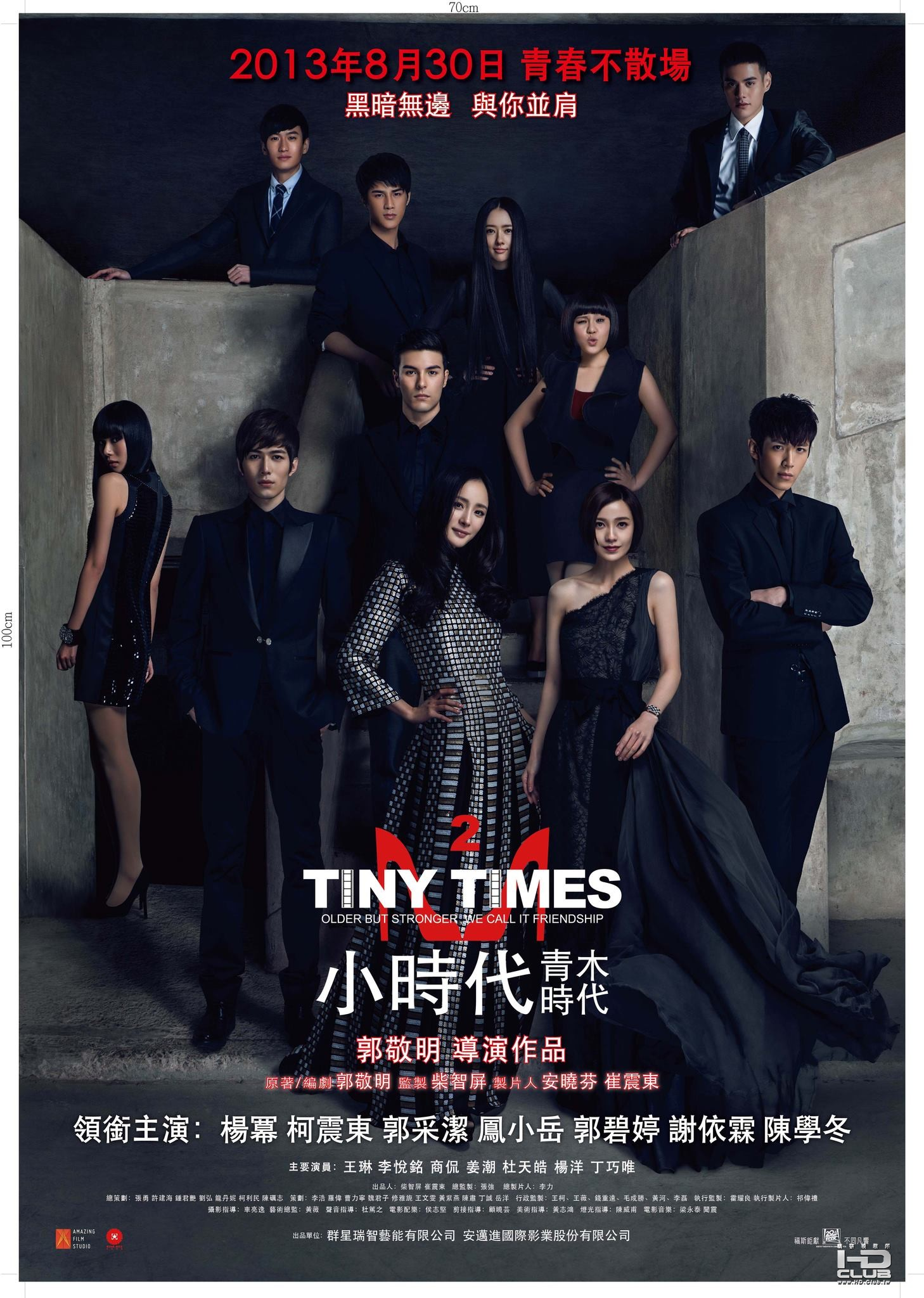 This is the poster of Tiny Times 2.